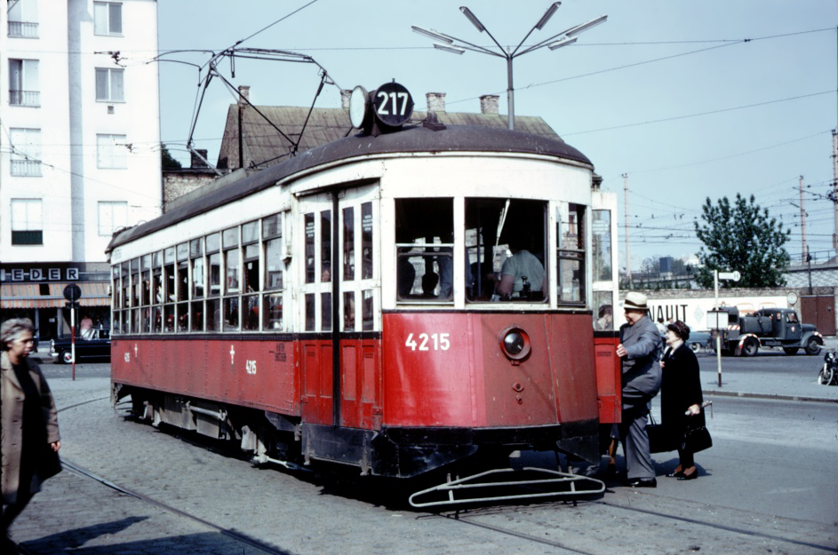 Vienna, Austria tram 4215 was originally built by, and for, the Third Avenue Railway System of New York City, in 1939. It was photographed operating on Vienna tram line 217 in the 1950s.